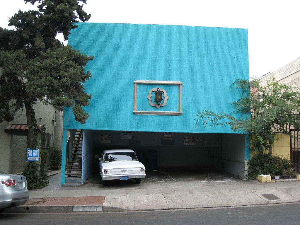 Example of "dingbat" apartment facade.